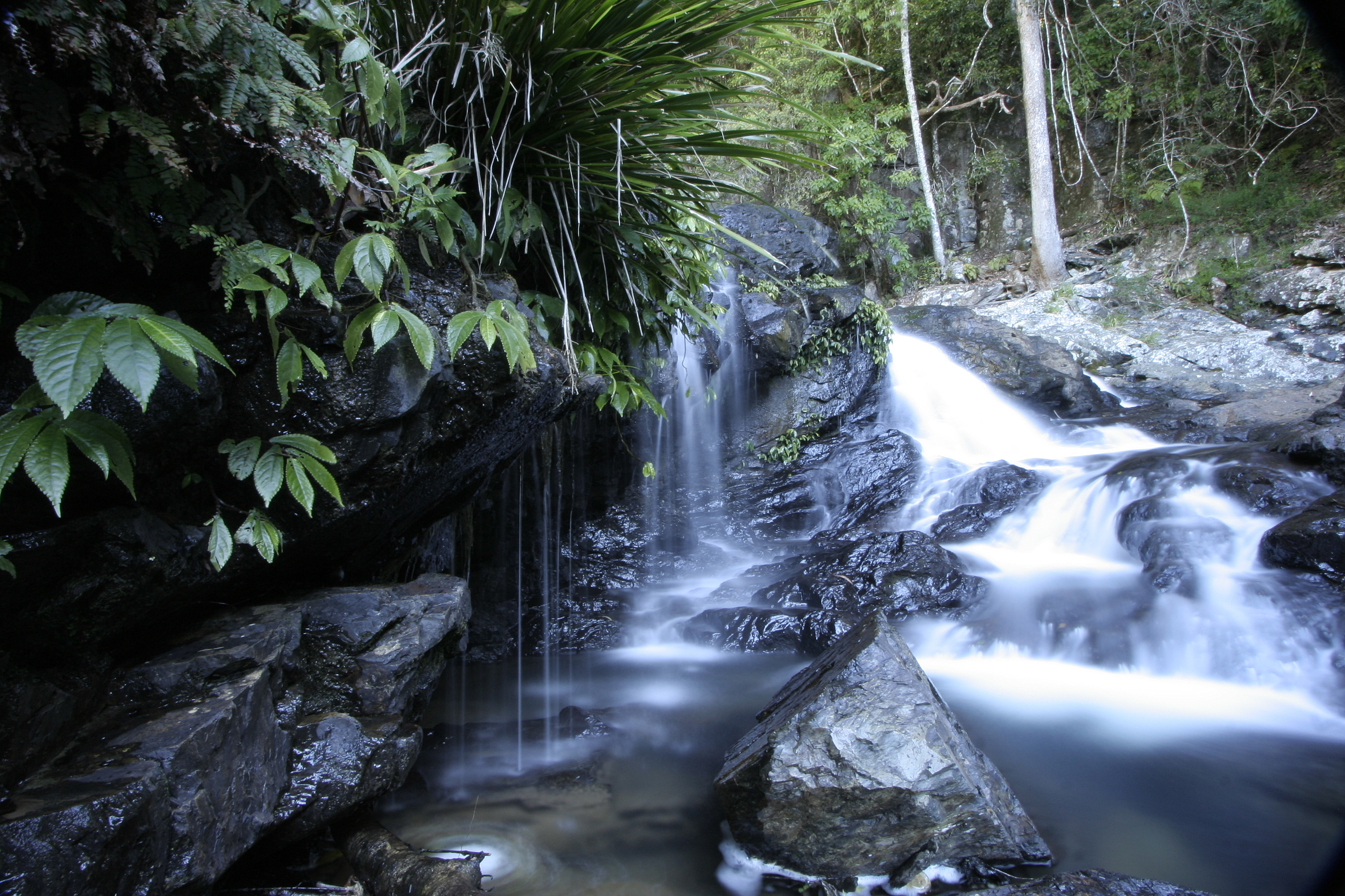 Upper Bindarri National Park. First shot of the day, and I thought "Hmm, that's a keeper".